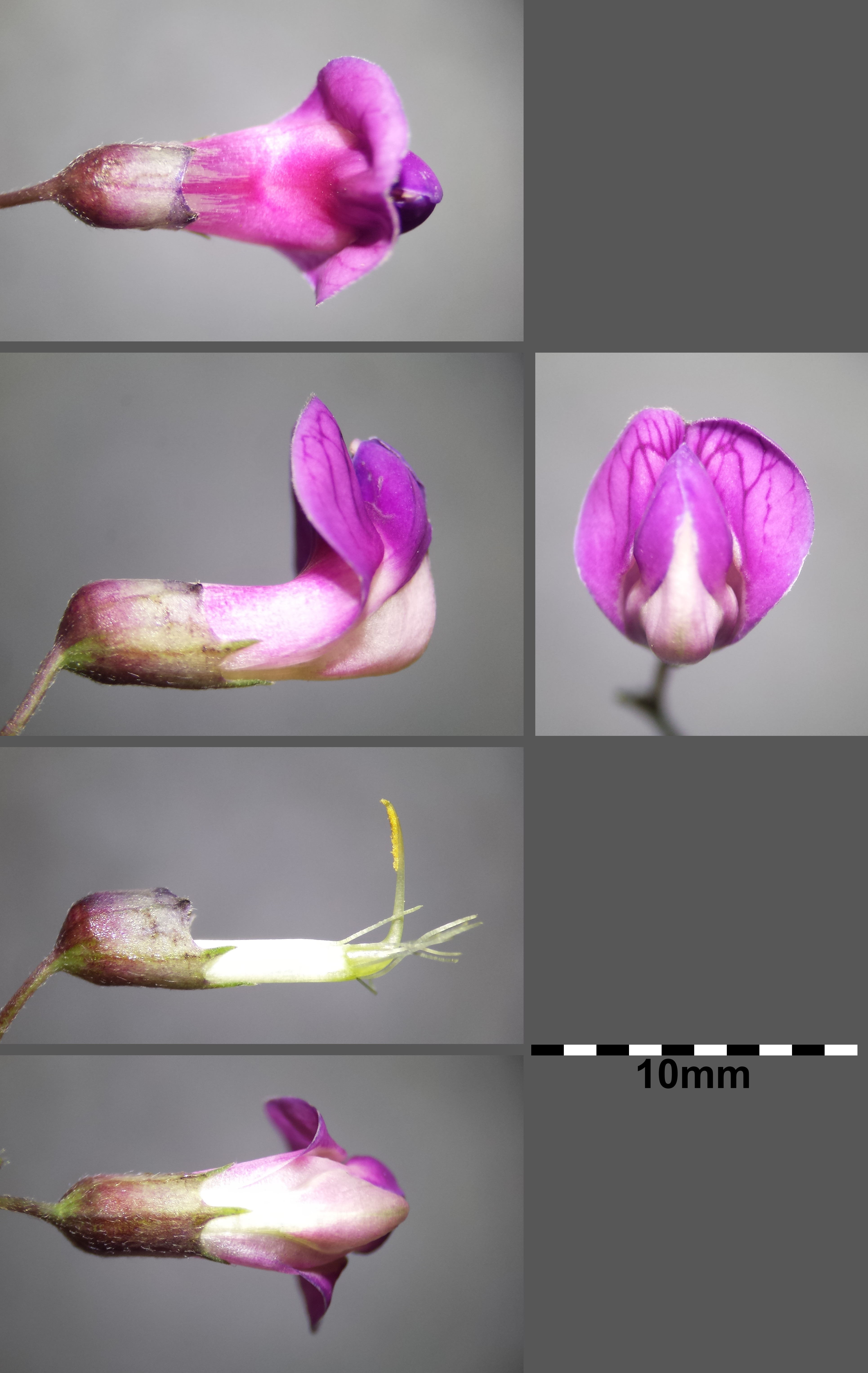 Flower Taxonym: Lathyrus niger ss Fischer et al. EfÖLS 2008 ISBN 978-3-85474-187-9 Location: Rohrwald, district Korneuburg, Lower Austria - ca. 300 m a.s.l. Habitat: Carpinion betuli